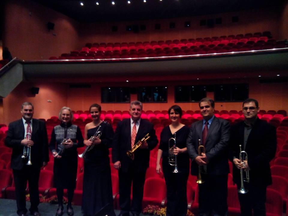 Carstea Sergiu, Anna Freeman, Lora Georgieva Georgieva, Pencho Penchev, Zeynep Cilingir, Vasko Ristov и Baze Kostadinov.